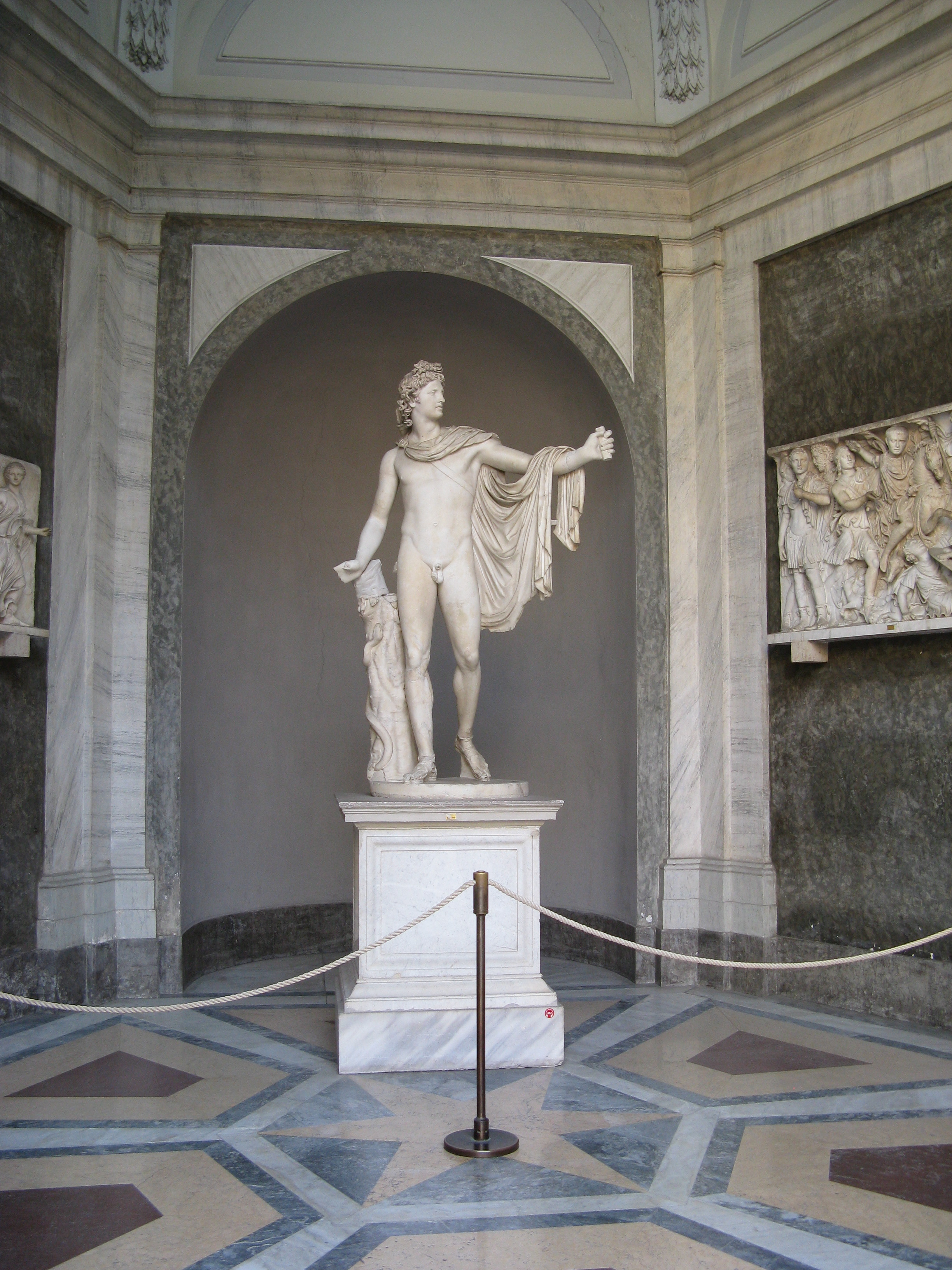 Roman copy after a Greek bronze original of 330–320 BC. attributed to Leochares. Found in the late 15th century.